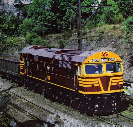 Comeng/ALCO Locomotive 8008